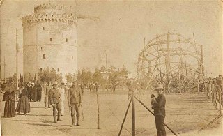 Zeppelin LZ 85 being rebuilt next to the White Tower, Greece